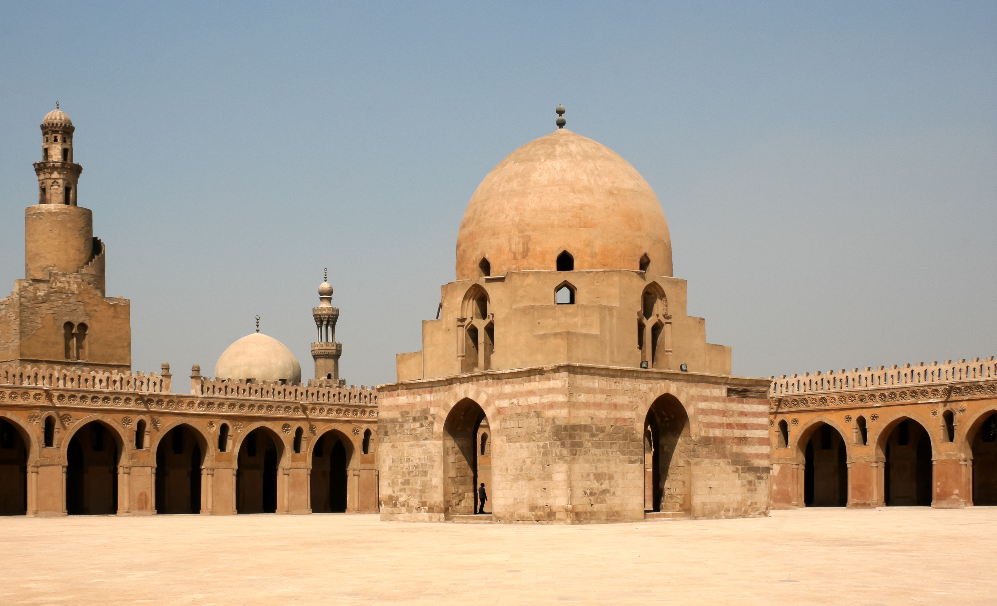 Mosque of Ibn Tulun, Cairo, Egypt